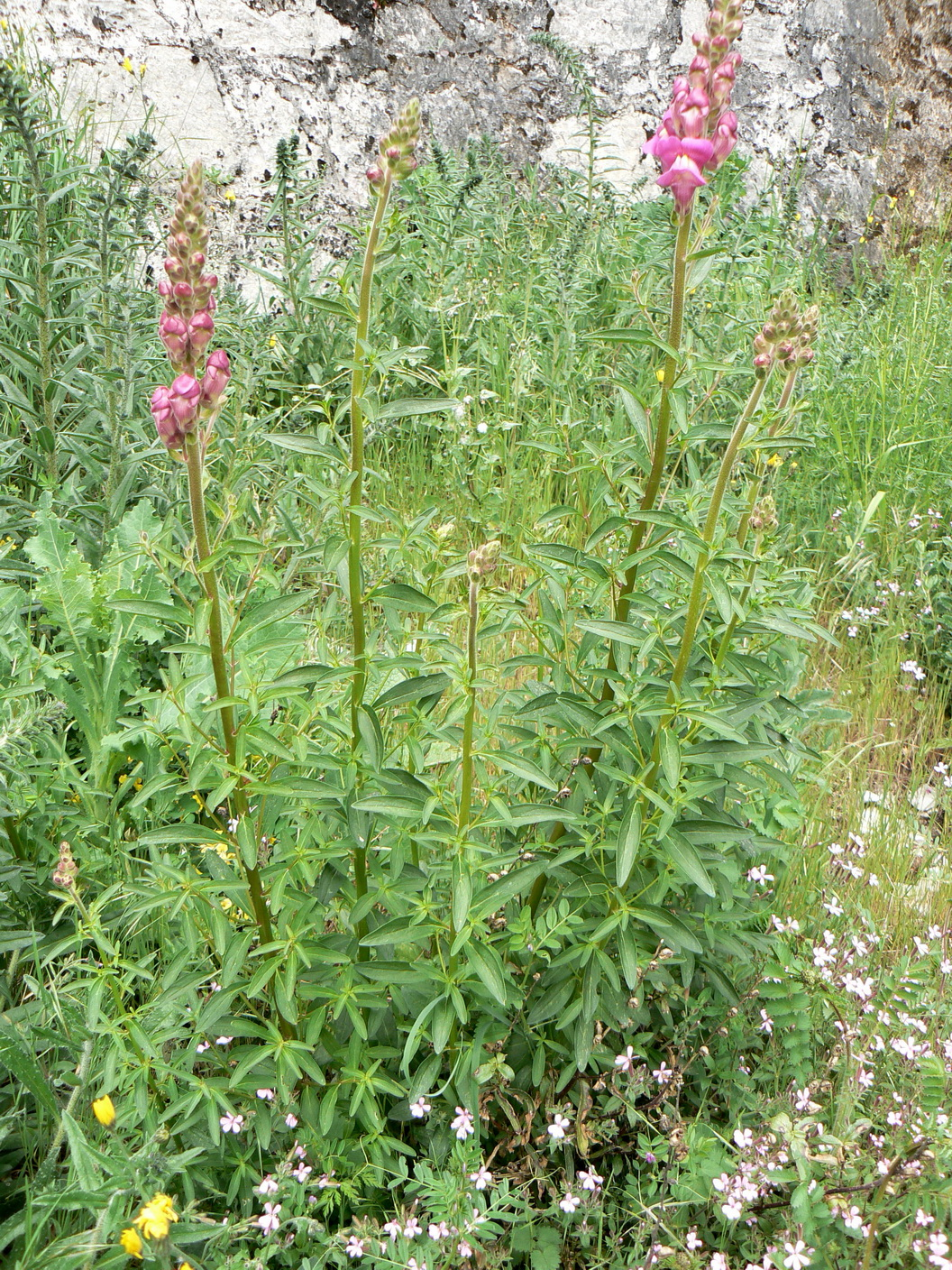 Antirrhinum majus, Gorges de la Vis, France